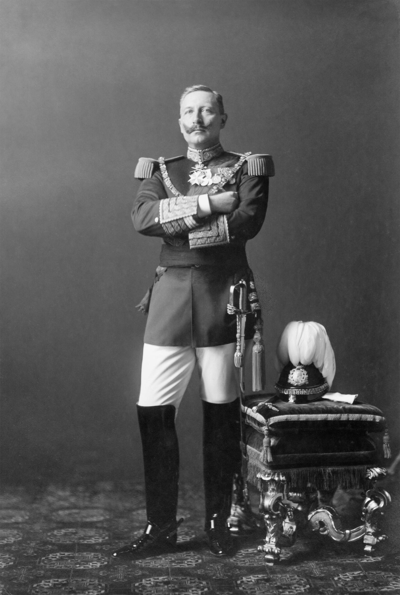 Germany Before the First World War 1890 - 1914 Full length portrait of the Kaiser wearing military uniform.